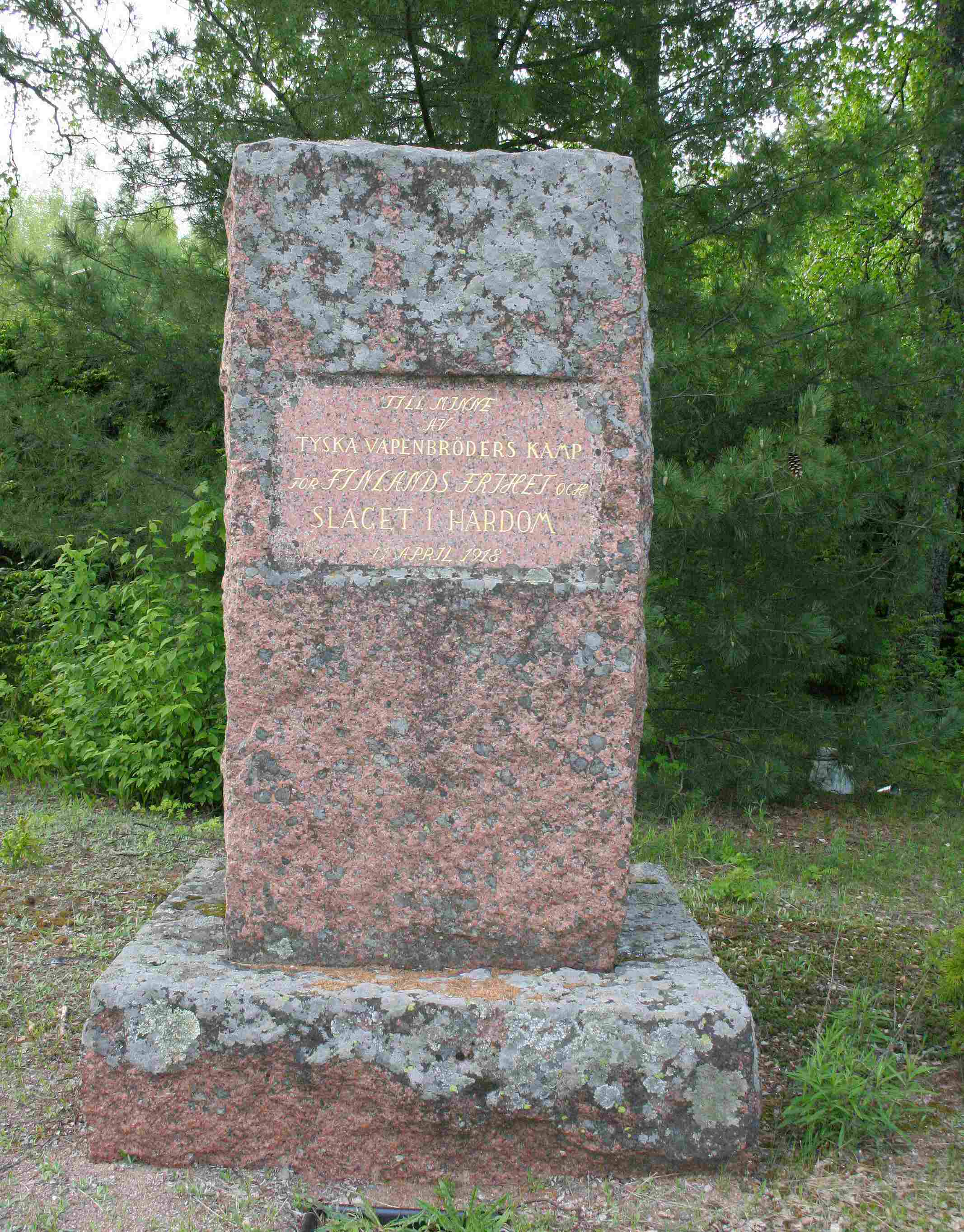 The memorial stone of the Battle of Hardom, 11th April, 1918